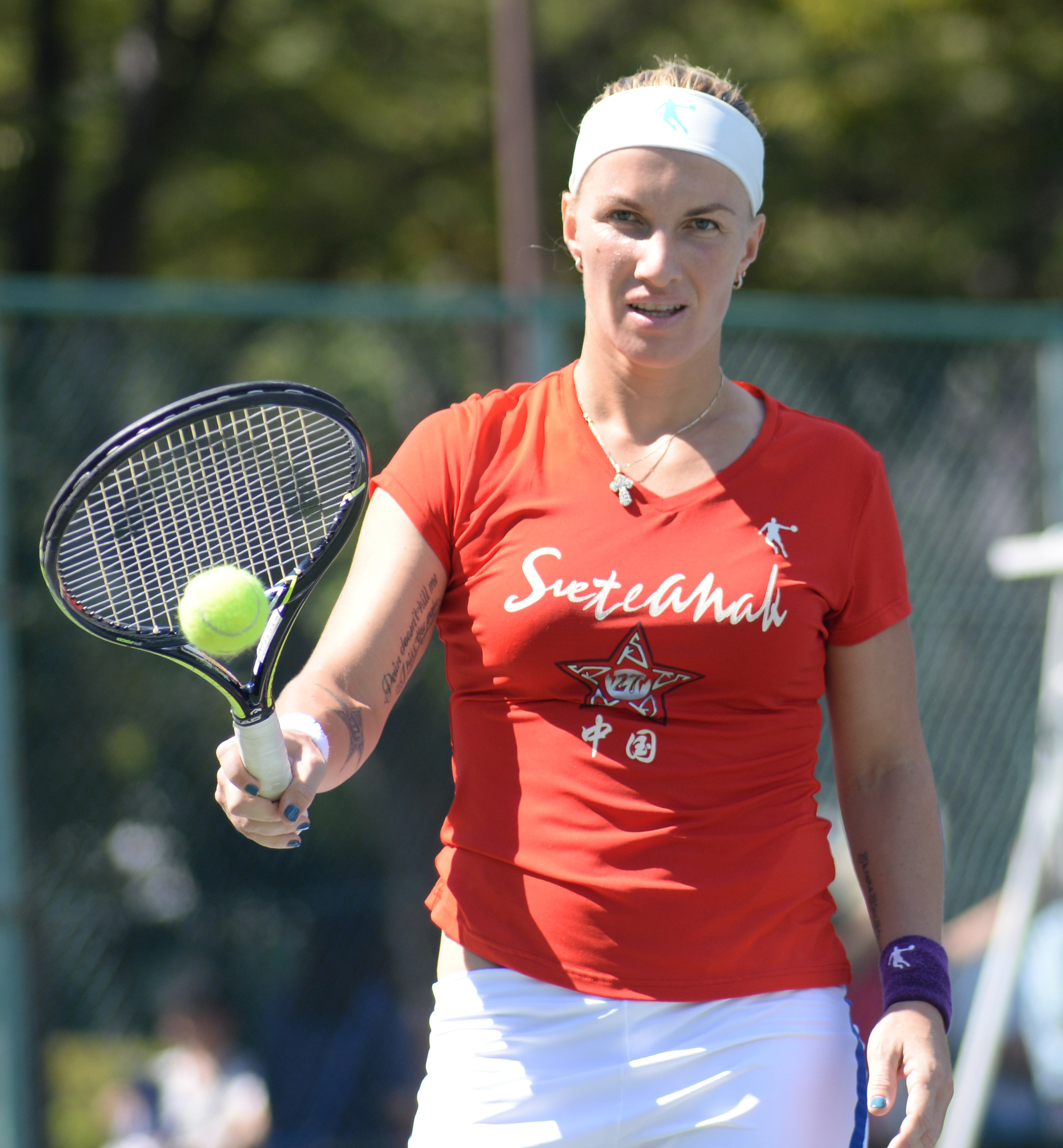 Svetlana Kuznetsova at the 2014 Toray Pan Pacific Open